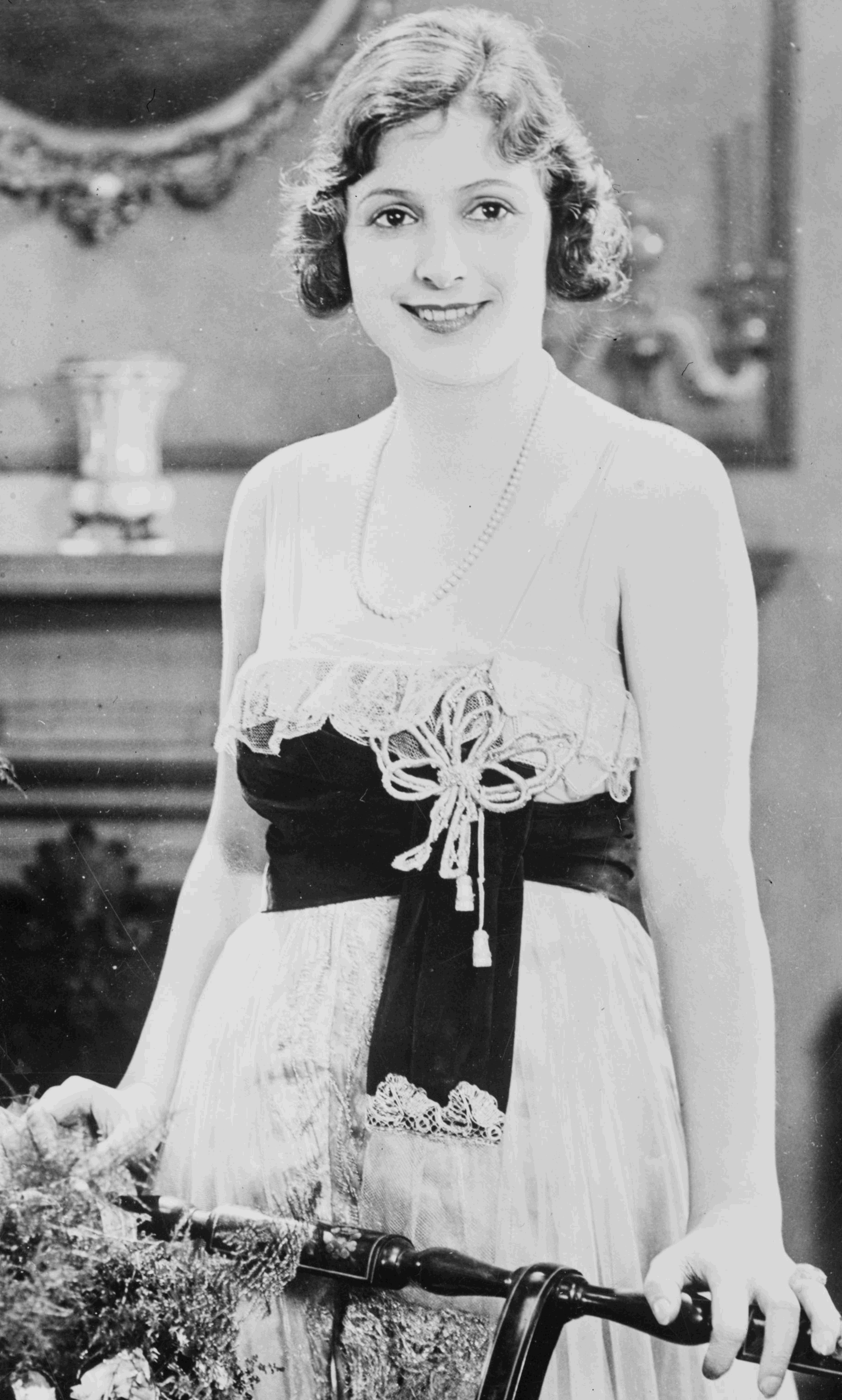 Norma Talmadge in the American film She Loves and Lies (1920).